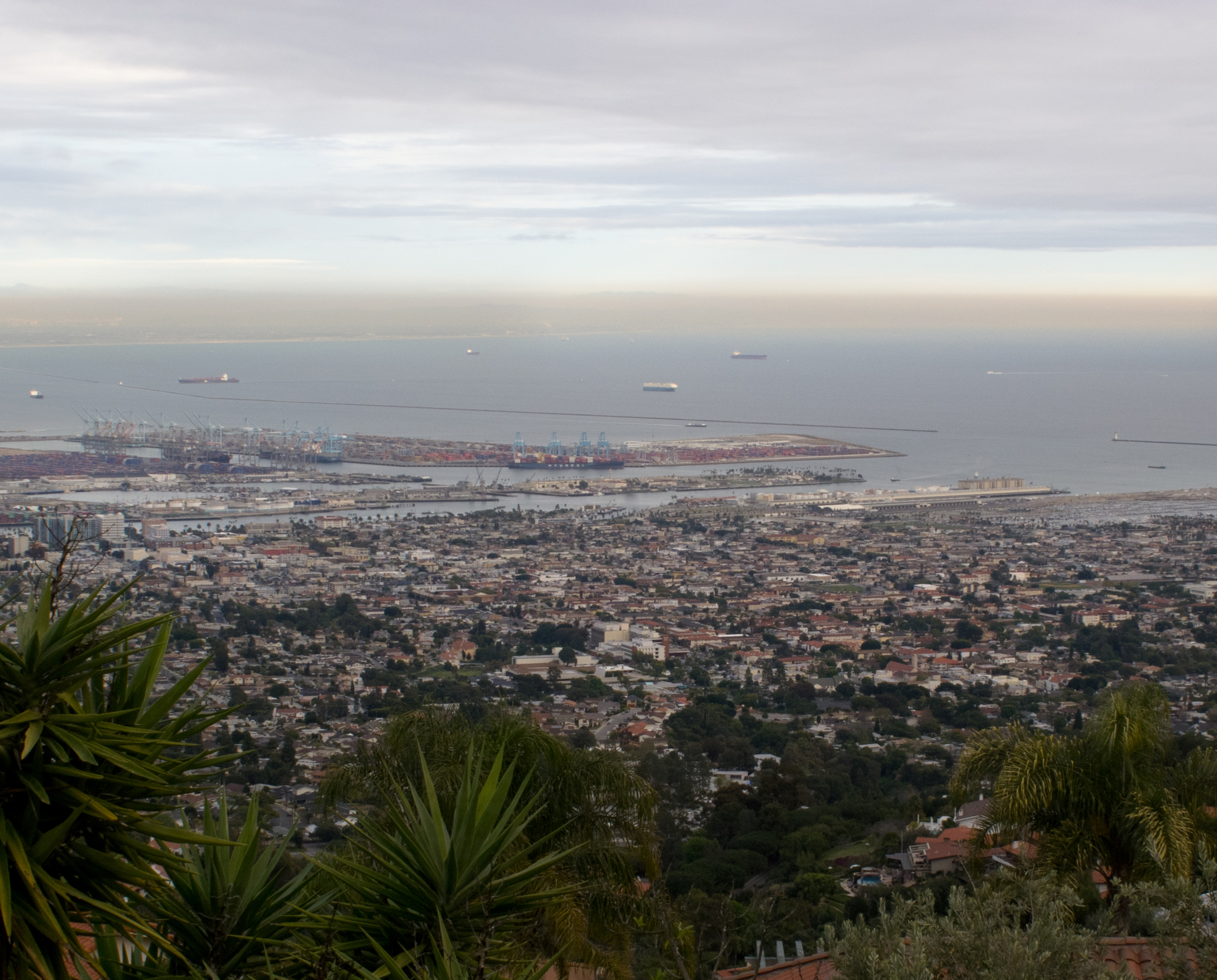 View of San Pedro, the Port of Los Angeles, and Pacific Ocean - in southern California.